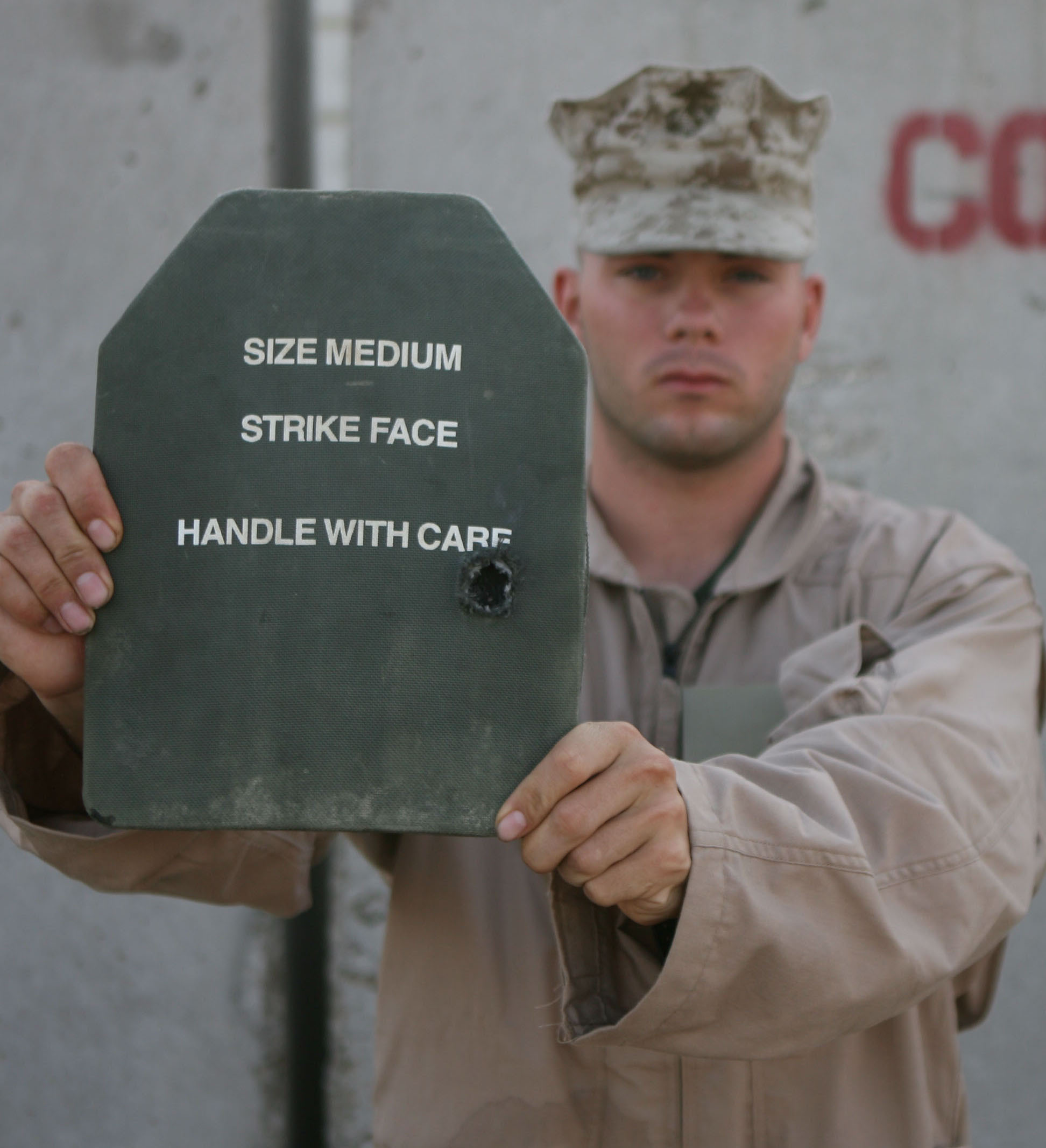 Cpl. Brandon L. Blair holds out the enhanced small-arms protective insert plate that stopped a gunshot against him. He doubted the plate's abilities before the incident. He now preaches the importance of wearing all the protective gear issued to Marines.